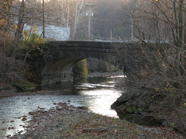 Picture of Bridge in Shaler Township in Allegheny County, Pennsylvania. This single span stone arch bridge was built in 1915, and crosses over Pine Creek on Burchfield Road. It is listed on the National Register of Historic Places.